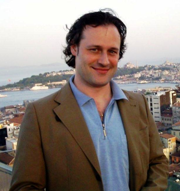 Sascha Goetzel, Austrian conductor